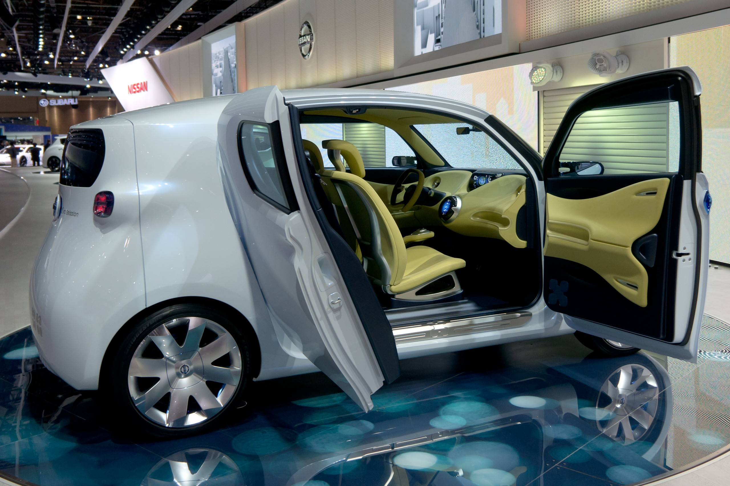 Tokyo Motor Show 2011: Nissan Townpod